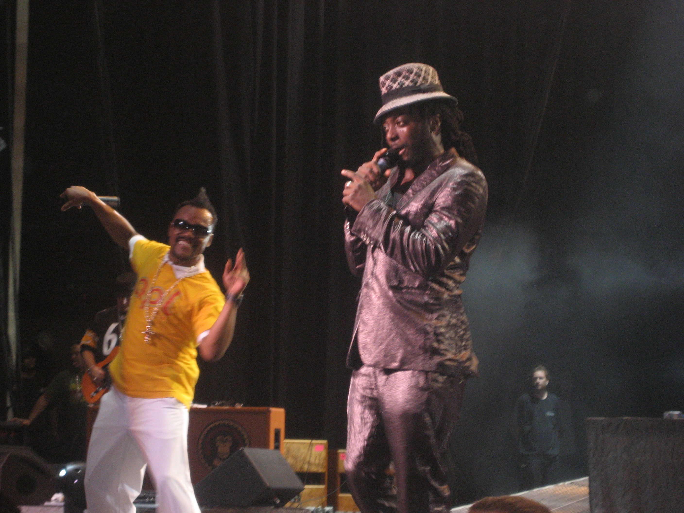 Apl & WIll.i.am. Black Eyed Peas concert, 8/24 Tweeter Center, Mansfield MA